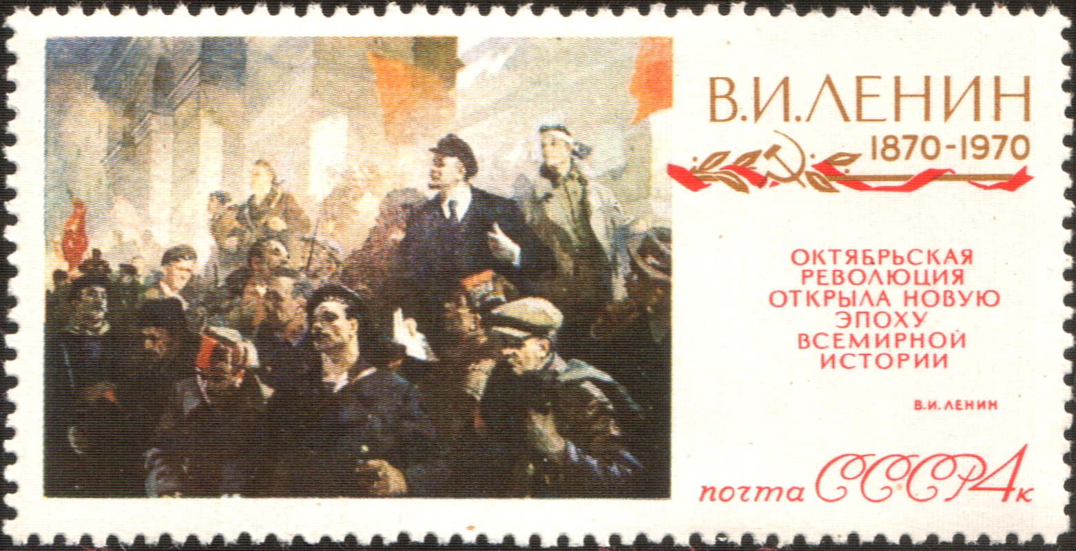 USSR stamp: First Day of Soviet Power (After Nikolai Babasyuk). Series: Centenary of Birth of Vladimir Lenin (1870-1924). Lenin on Paintings